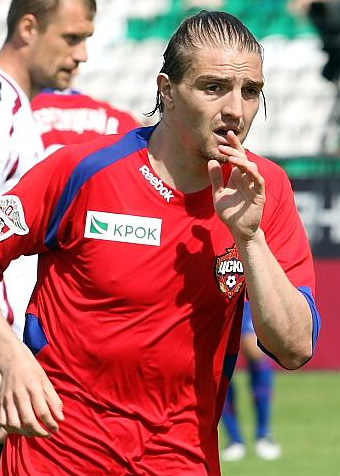 Turkish winger Caner Erkin